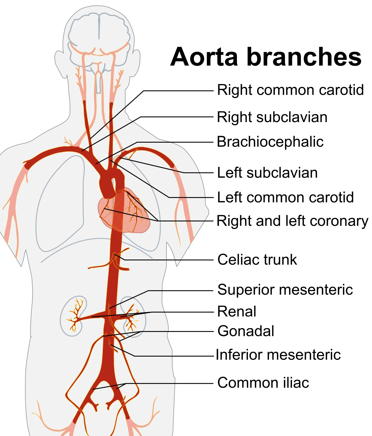 Branches of the aorta